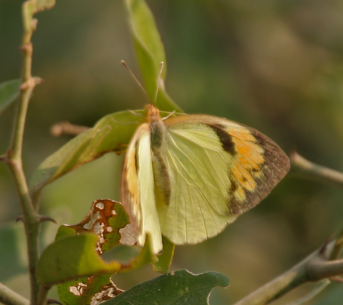 Yellow Orange Tip Ixias pyrene at Hodal in Faridabad District of Haryana, India.